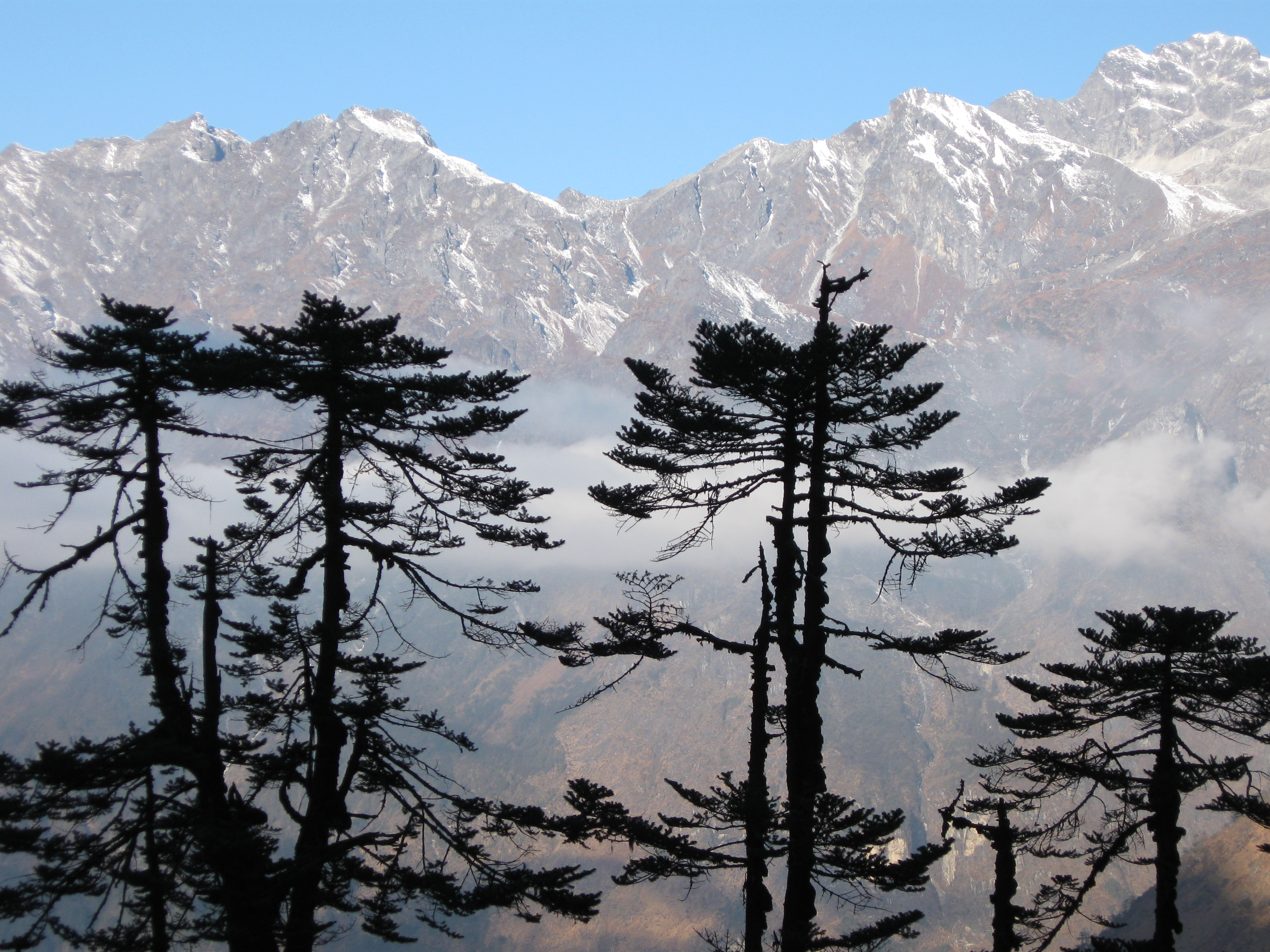 KATAO, SIKKIM